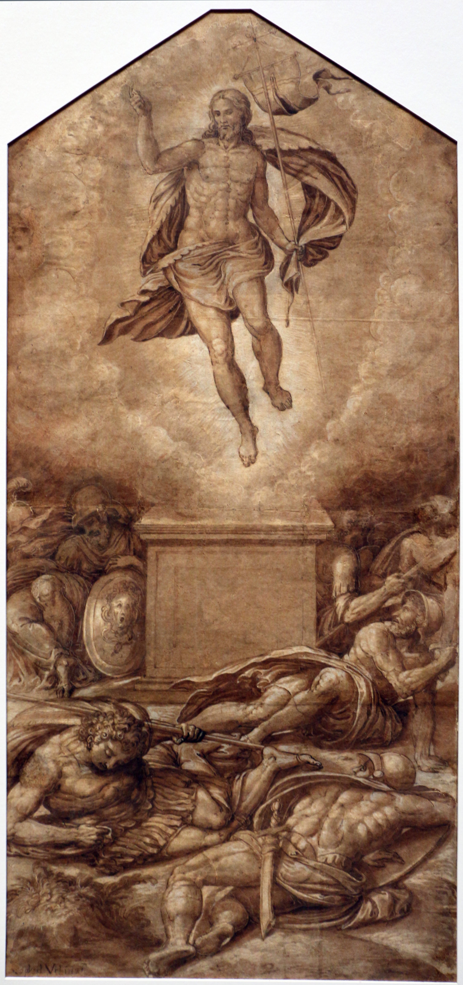 Exhibition From Floris to Rubens Master drawings from a Belgian private collection